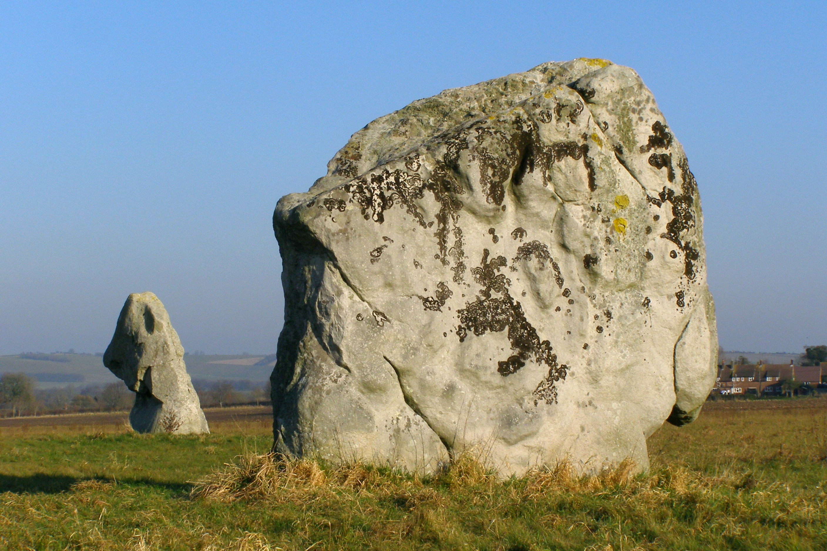 In the foreground, Adam. In the background on the left, Eve. The two Beckhampton Longstones, west of Avebury, Wiltshire, U.K.